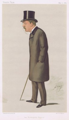 Caricature of Mr Thomas Hay Sweet Escott. Caption read "the Fortnightly Review".